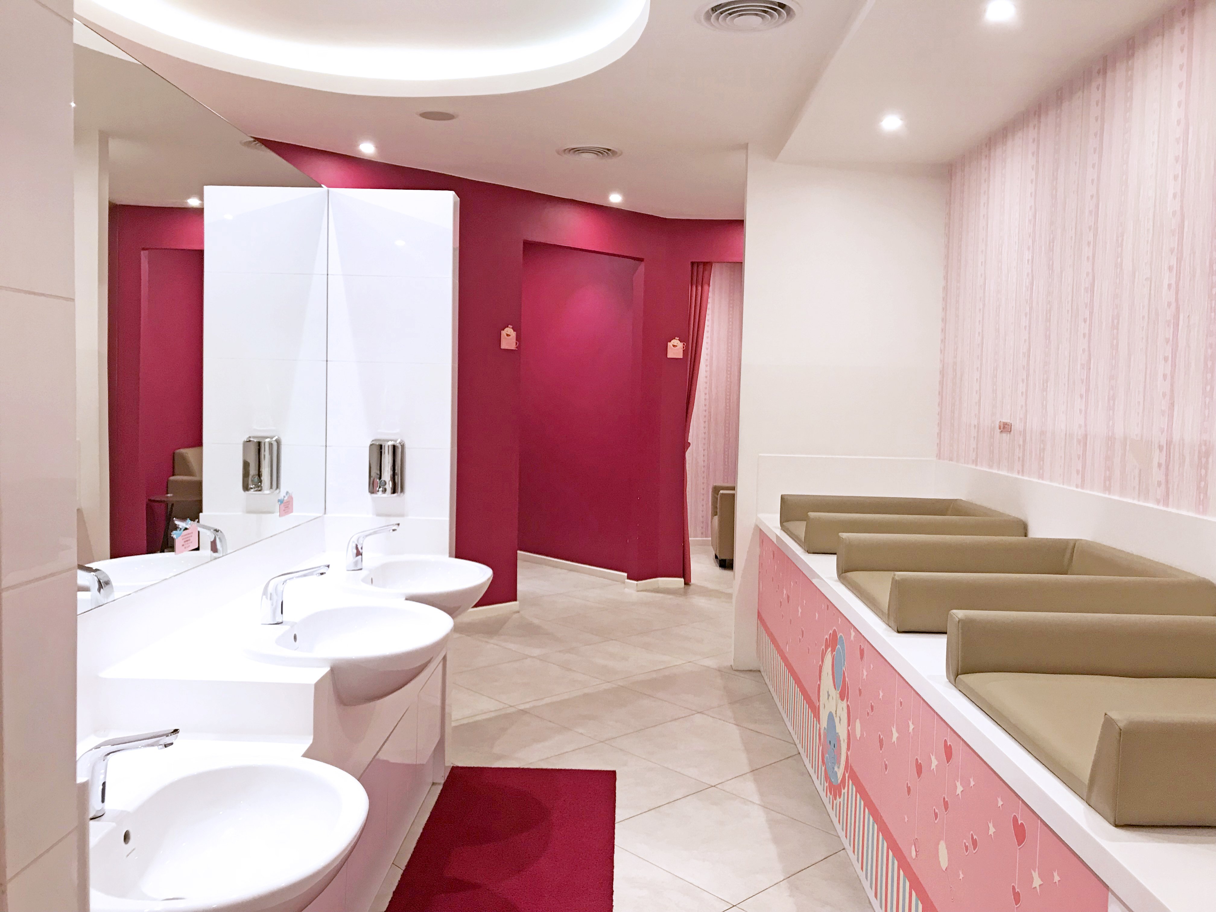 IMAGO Nursery Room